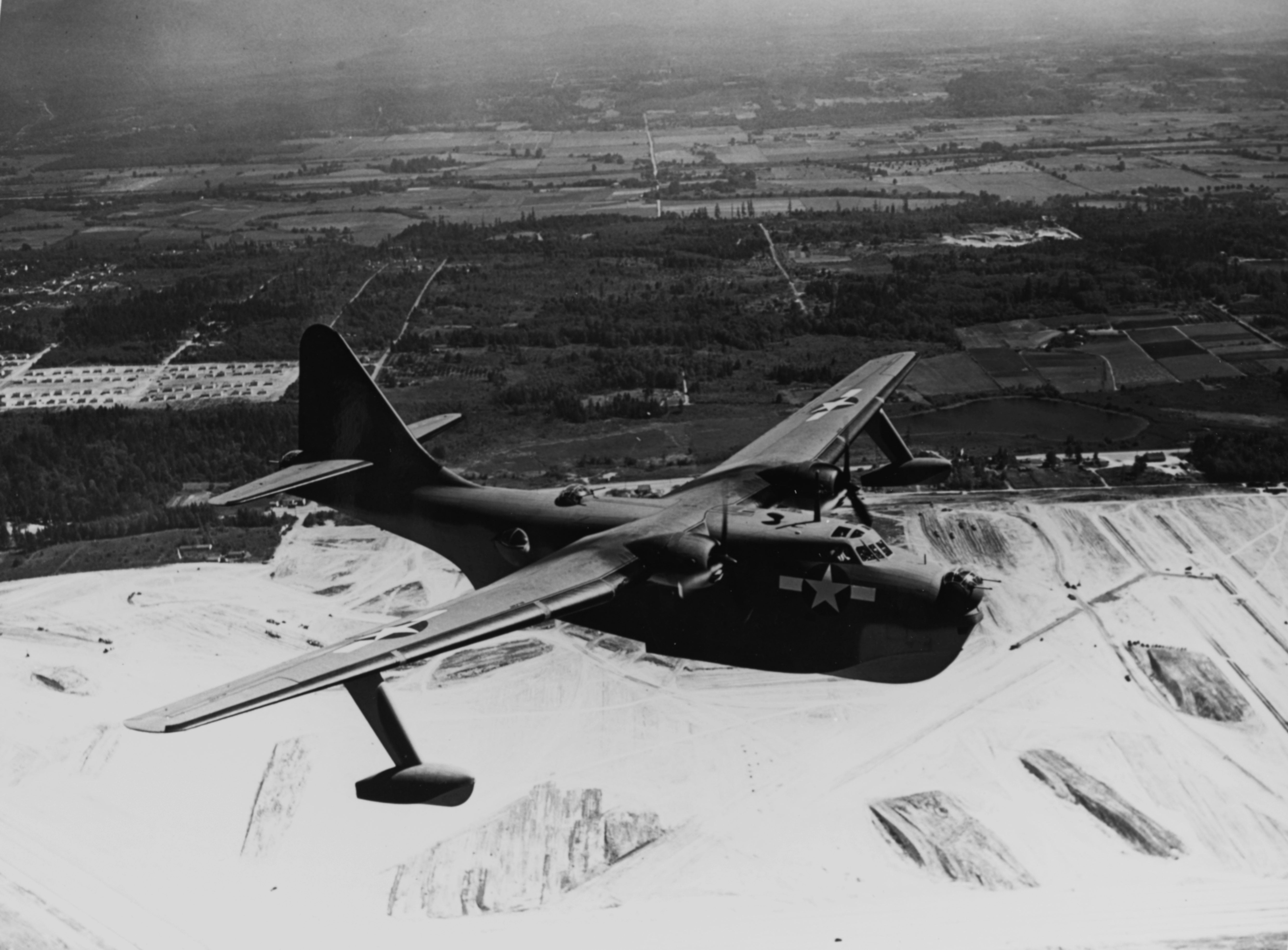 The U.S. Navy Boeing XPBB-1 Sea Ranger patrol bomber (BuNo 3144) in flight circa in the summer of 1943. Note the airfield under construction below.